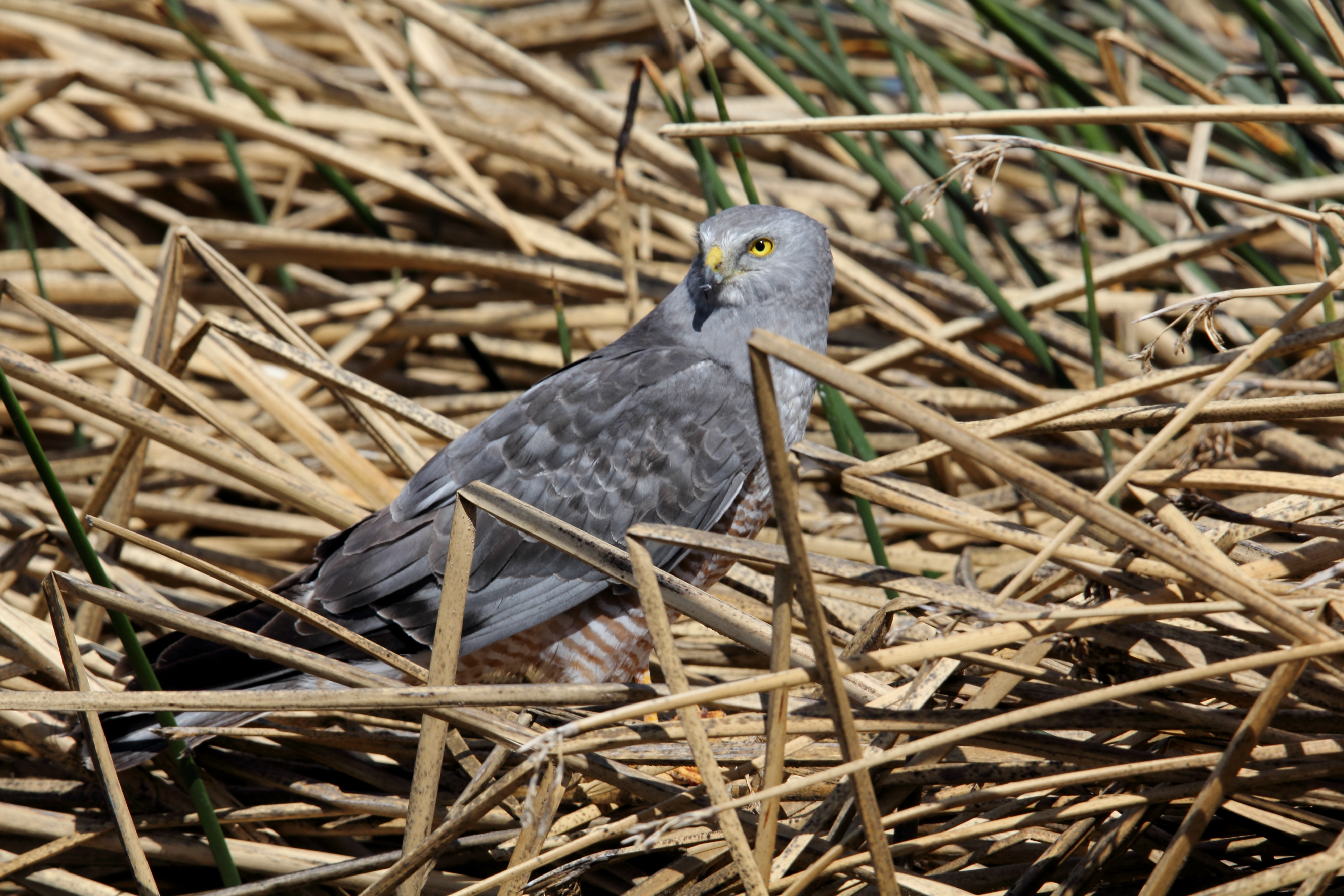 Cinereous Harrier Circus cinereus male, southern Argentina